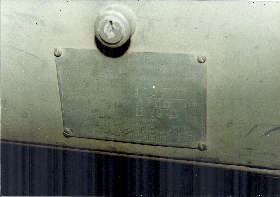 data plate from Bantam Reconnaisance and Command Car S/N 1007